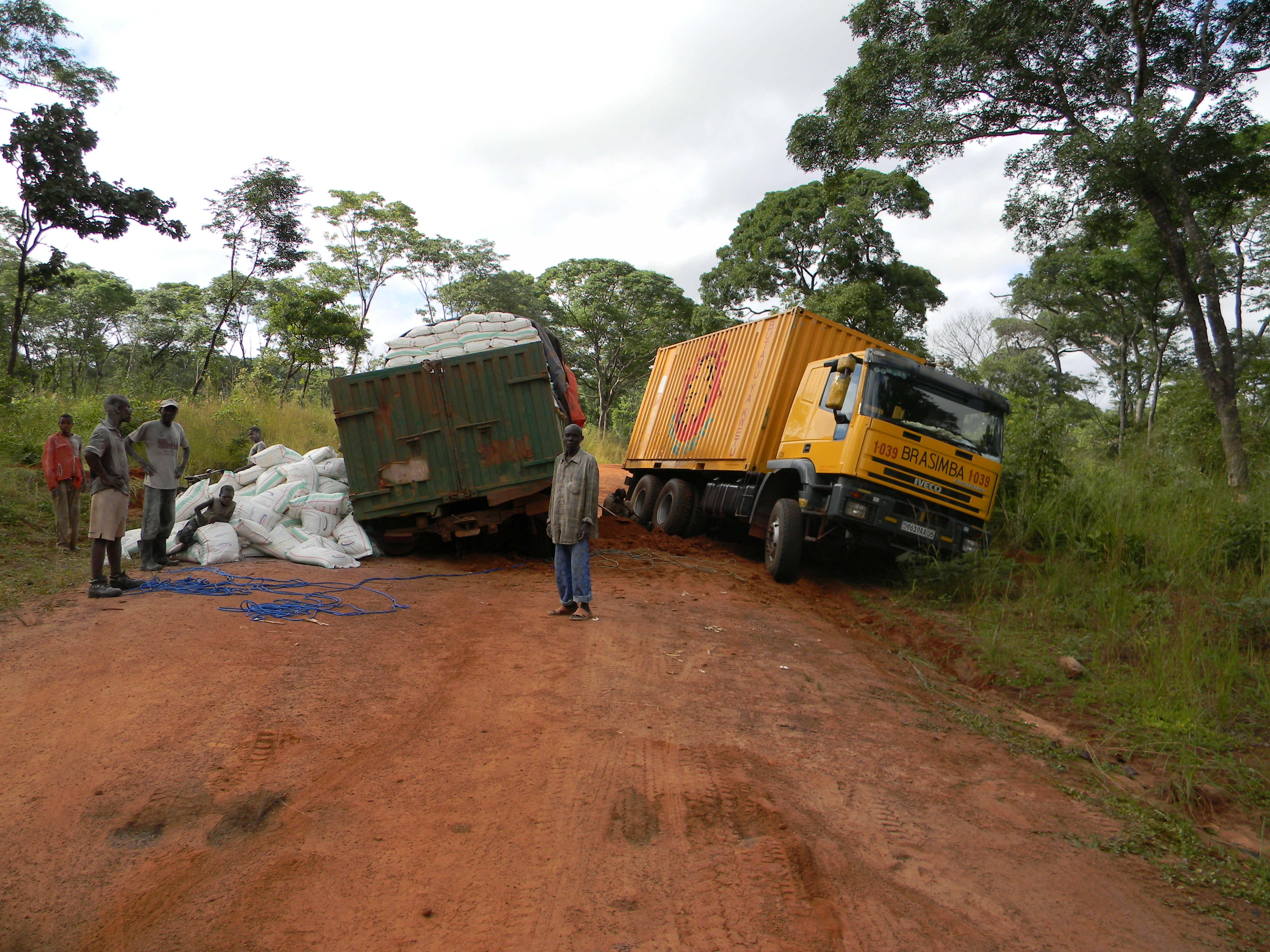 This is an image with the theme "Africa on the Move or Transport" from: Democratic Republic of the Congo